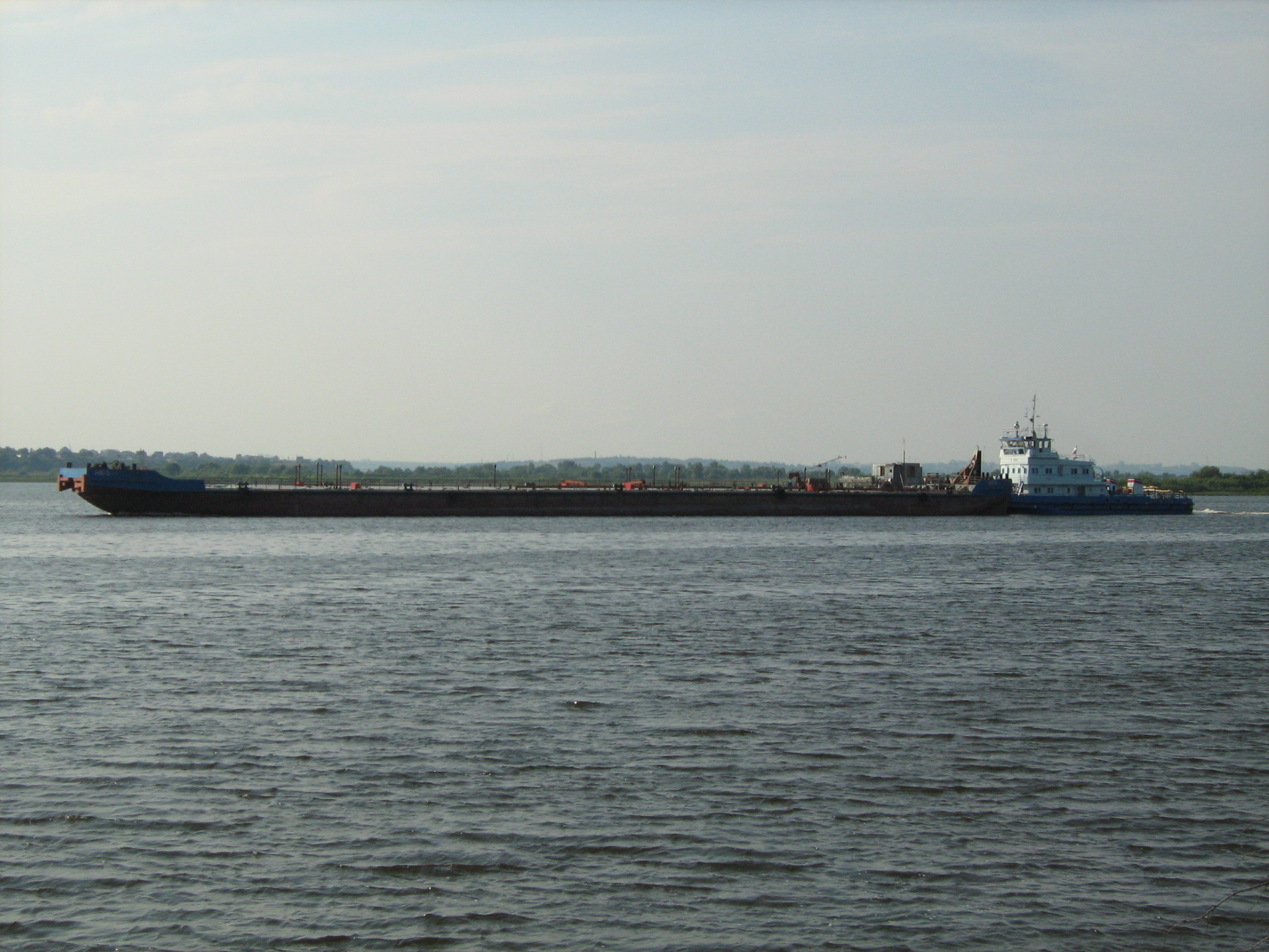 A barge on the Volga, upriver from Kstovo